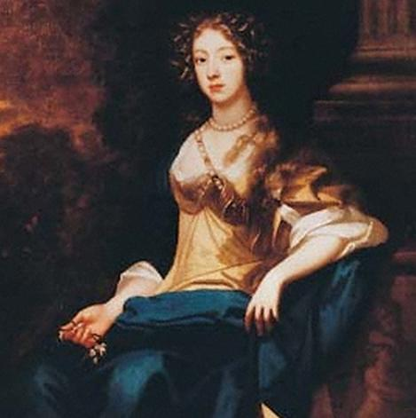 detail of Margaret Godolphin by maybe Mary Beale